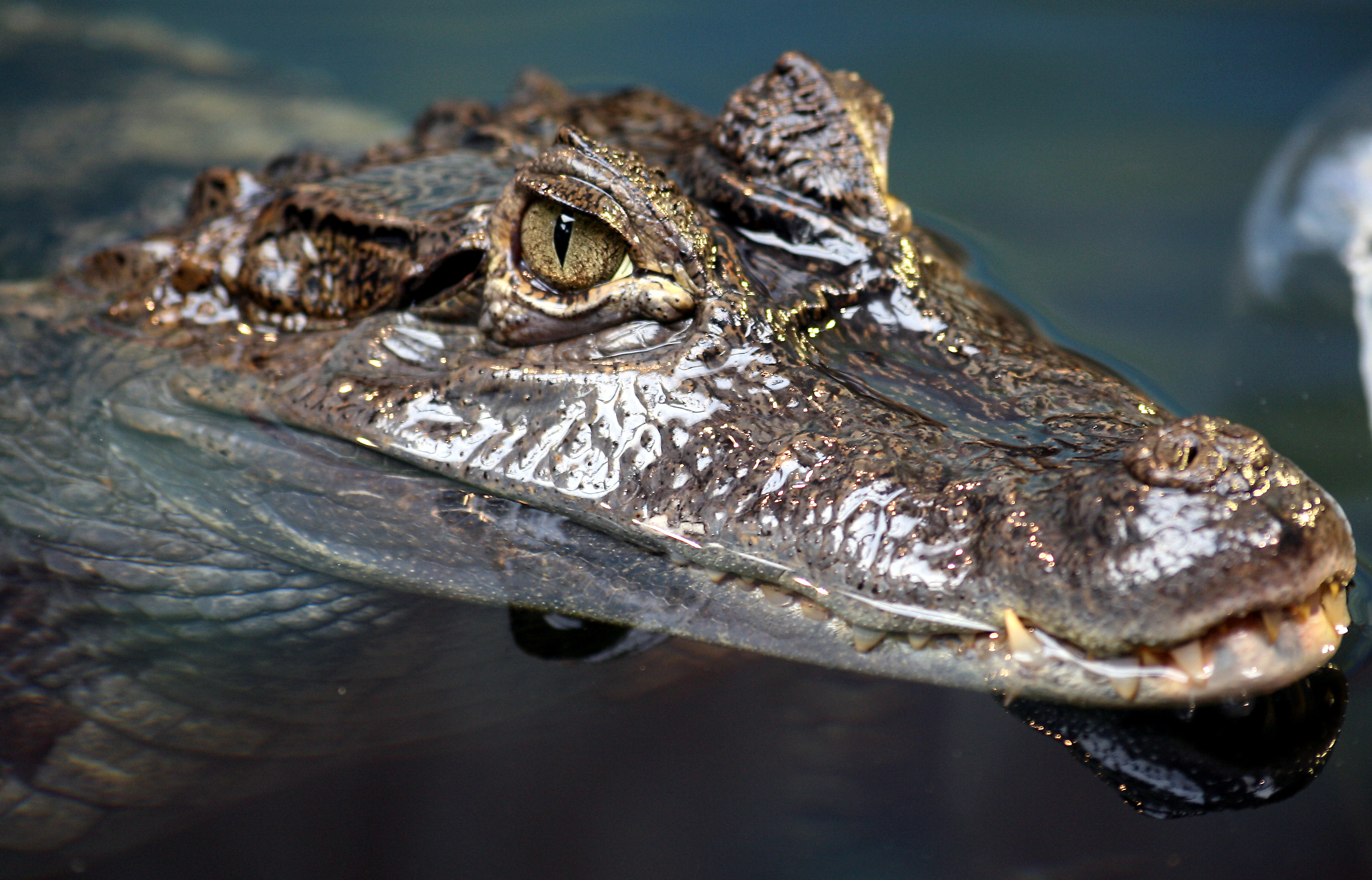 Spectacled caiman in Eagle Heights Wildlife Park, Kent